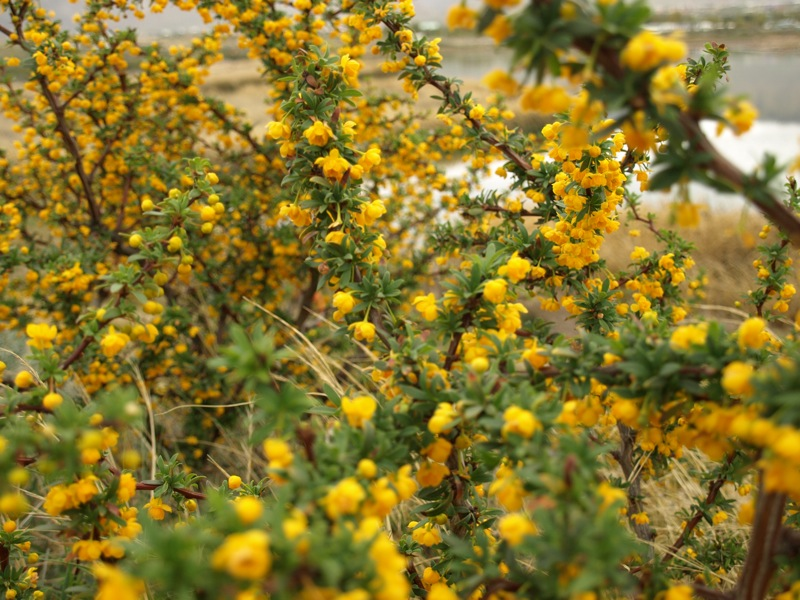 Calafate bush (Berberis microphylla)